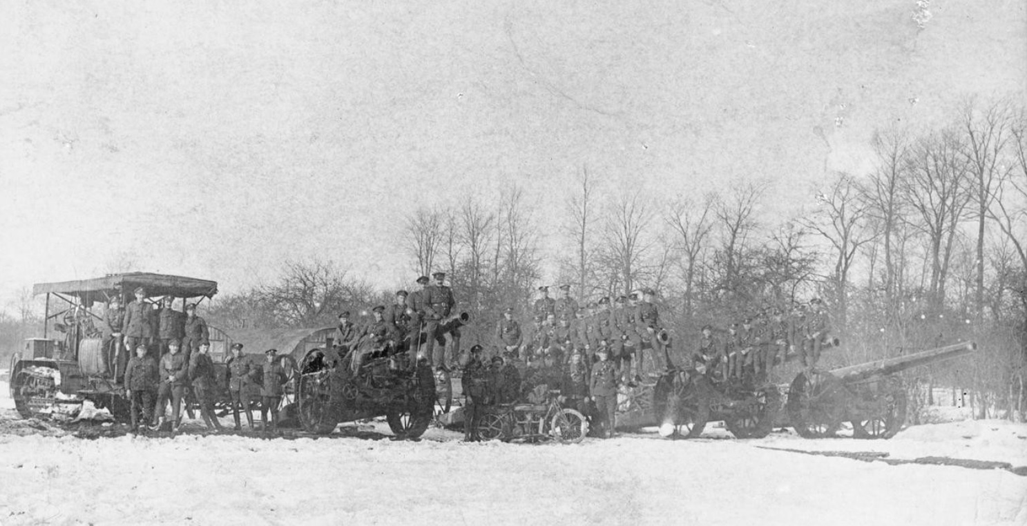 Battery of four 6-inch Mark XIX guns and one detachment of men. 484th Siege Battery R. G. A. Bouquemaison (Somme) January 1919.